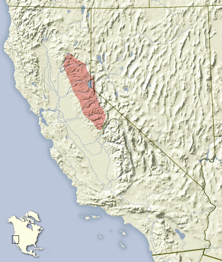 Distribution map of the long-eared chipmunk